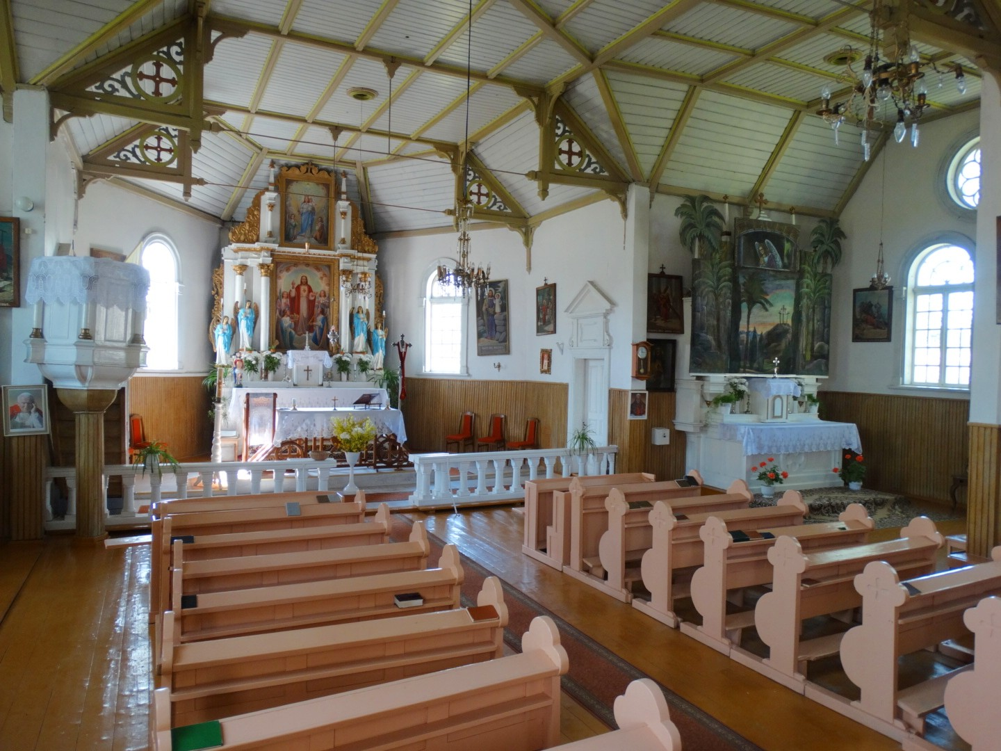 Catholic church interior in Gudžiūnai, Kėdainiai District, Lithuania